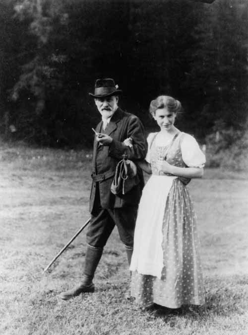 Sigmund and his daughter Anna Freud